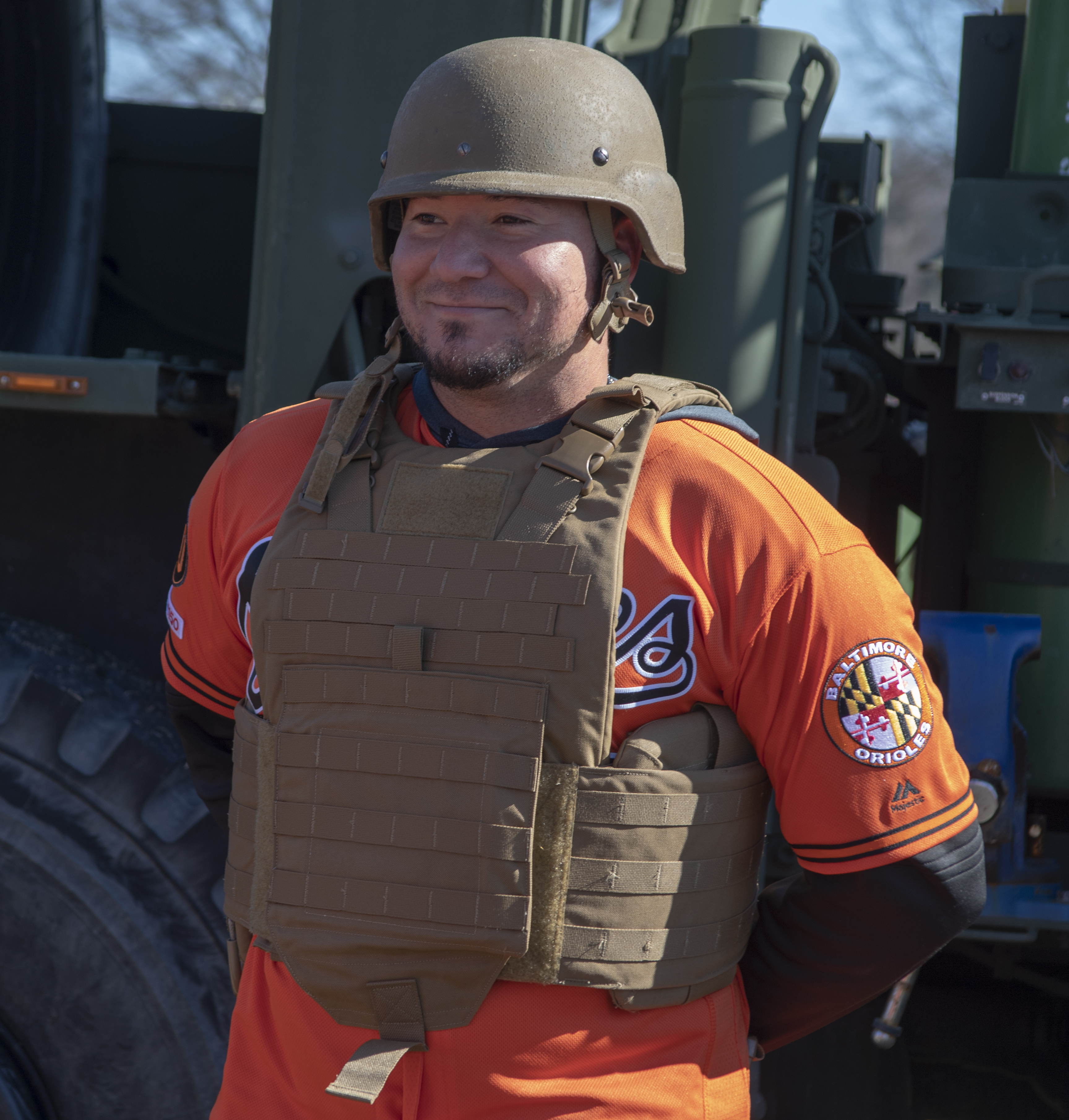 Jesus Sucre of the Baltimore Orioles wears a military helmet and vest during a 2019 team visit to the United States Naval Academy